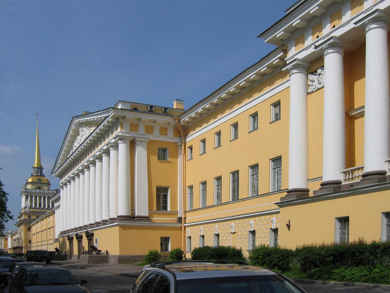 The Admiralty was founded by Peter the Great in 1704 as a shipyard; the current building appeared in the early 1820s to handle naval administration. The building's layout corresponds to the Greek and Cyrillic first initial of Peter's name.